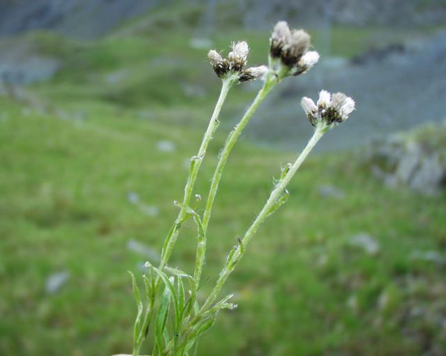 (en) Antennaria carpathica, a photography originating of the internet site The accord of the autor, H. Brisse, is here. (fr) Antennaria carpathica, une photographie issue du site internet L'accord de l'auteur, H. Brisse, se situe ici.